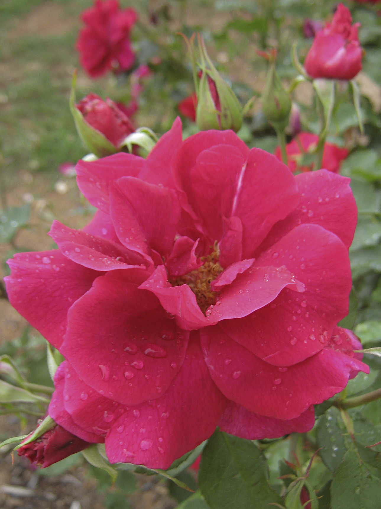 Rose 'Etoile de Hollande', Hybrid Tea by Verschuren 1919; photographed in the Nieuwesteeg Heritage Rose Garden, Maddingley Park, Bacchus Marsh, Victoria